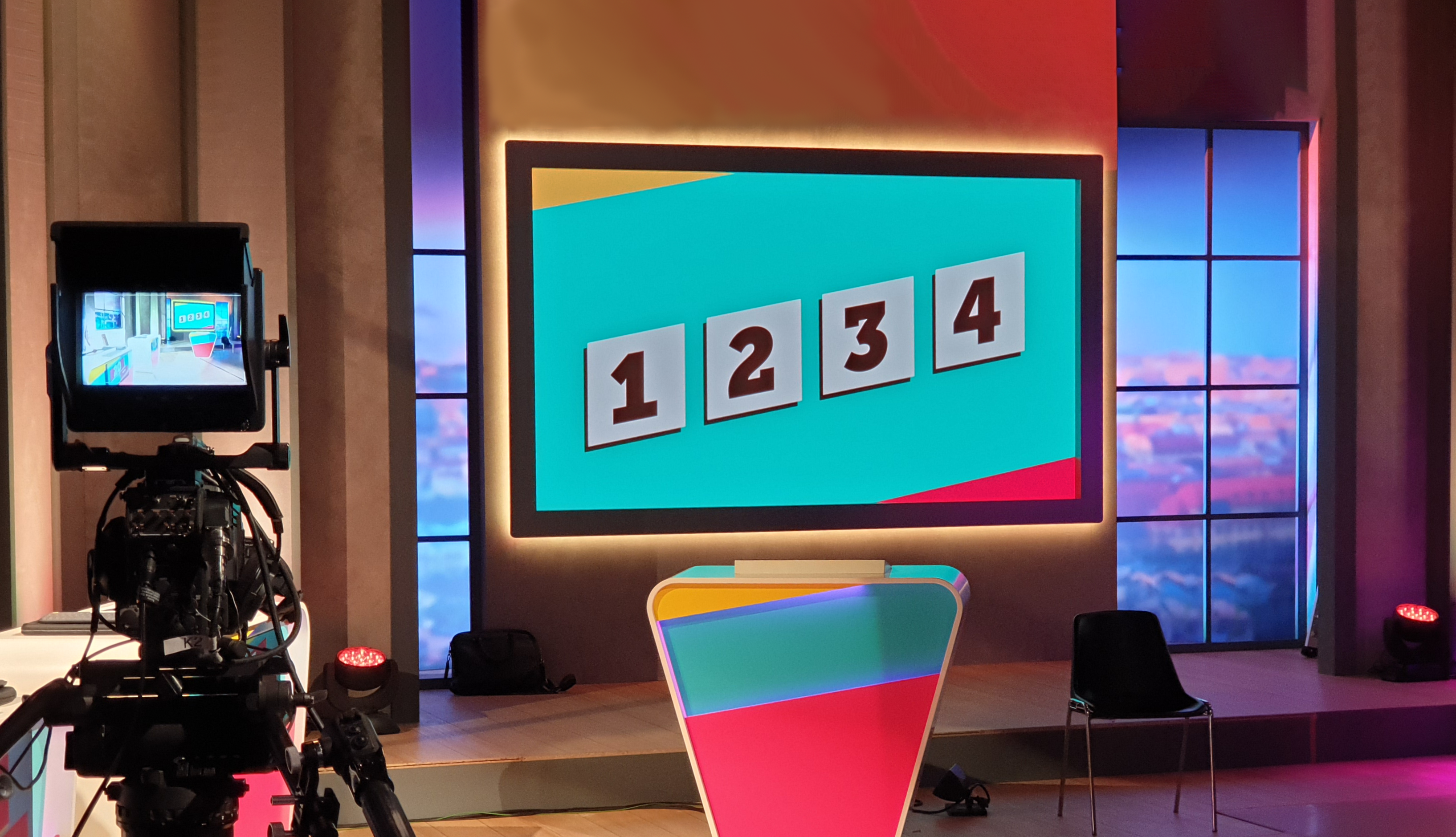 LED videowall, HDR capable in a TV Studio.